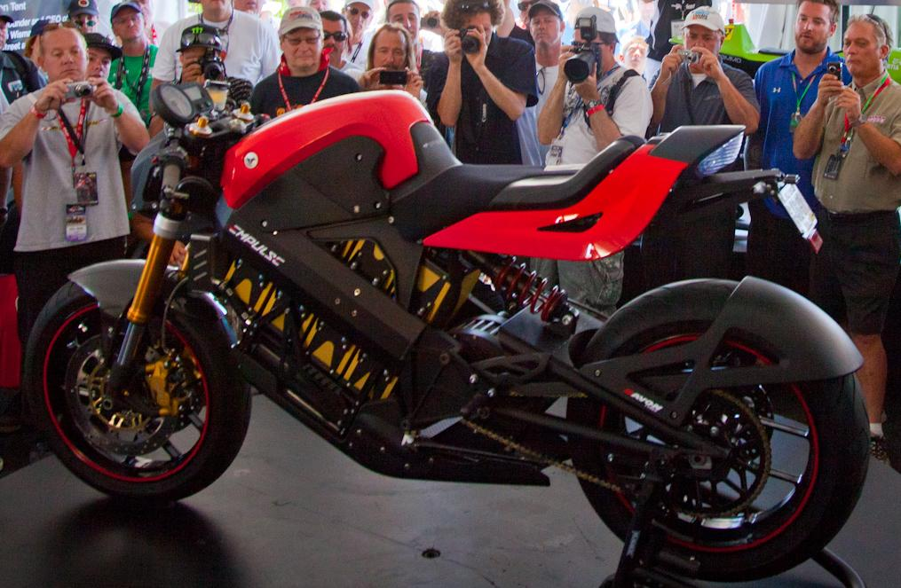 Brammo Empulse Prototype Electric Motorcycle